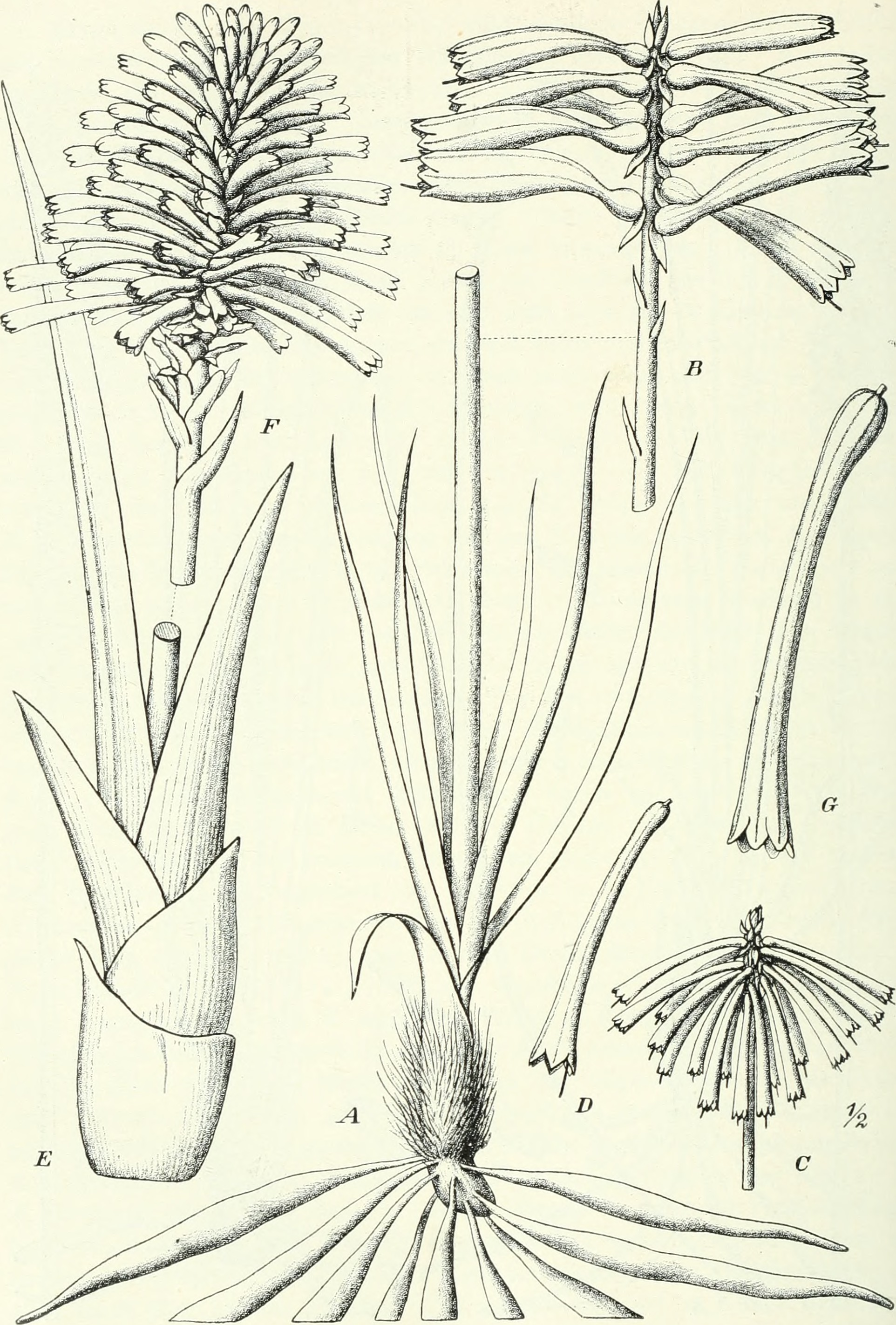 Title: Die Pflanzenwelt Afrikas, insbesondere seiner tropischen Gebiete : Grundzge der Pflanzenverbreitung im Afrika und die Charakterpflanzen Afrikas Year: 1910 (1910s) Authors: Engler, Adolf, 1844-1930 Subjects: Botany Publisher: Leipzig : W. Engelman Text Appearing Before Image: 314 Liliiflorae. — Liliaceae. Text Appearing After Image: Fig. 213. Kniphofia. A, B K. isoetifolia Höchst. (Bergwiesen im Hochland von Abyssinien.) C, D K. drepanophylla Bak. (Pondoland, in Sümpfen mit Zantedeschia aethiopica zusammen vor- kommend.) E—G K. dubia De Wild. (Katanga im Kongostaat, auf der Westseite des südlichen Tanganyika.) — Nach Berger.